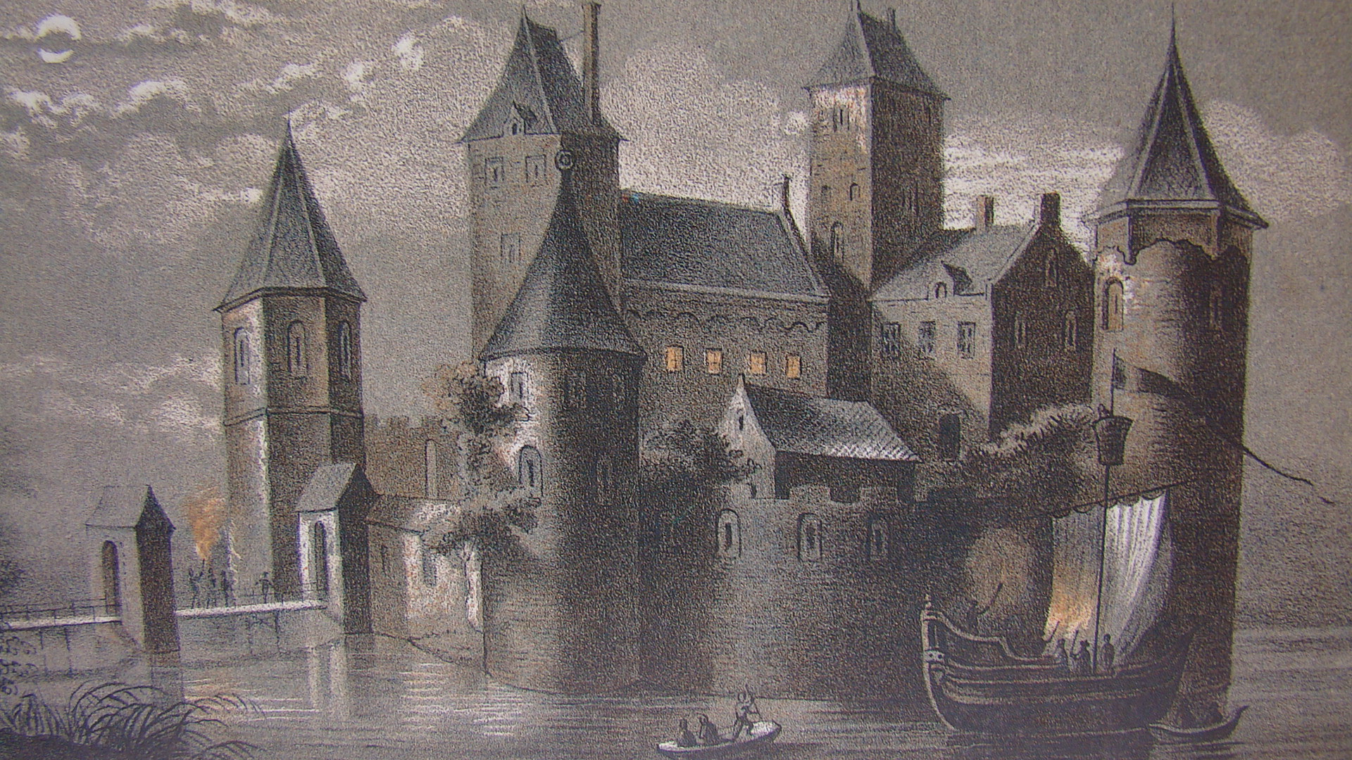 Former Castel Torenburg at Alkmaar, The Netherlands